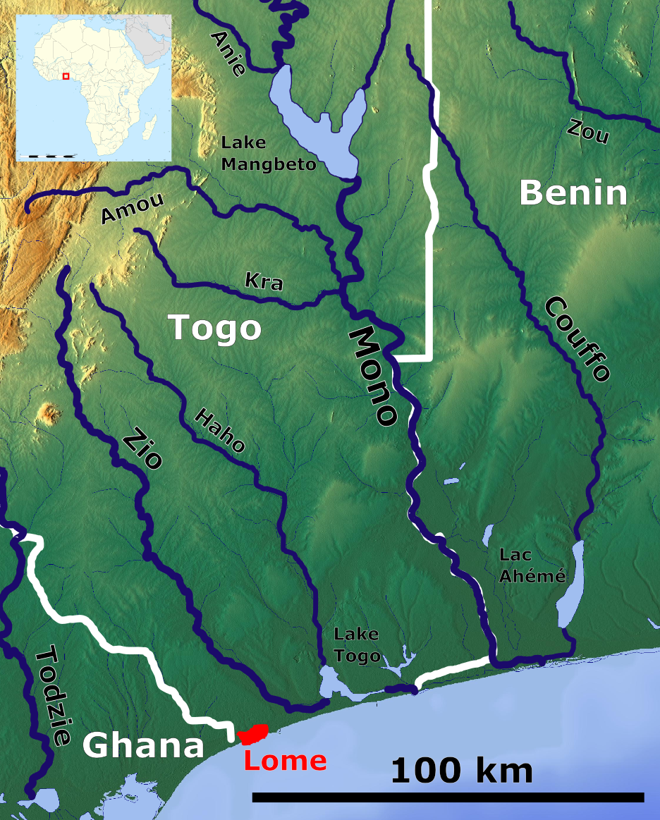 south of Togo and Benin with the Zio, Couffo and Mono River OMS